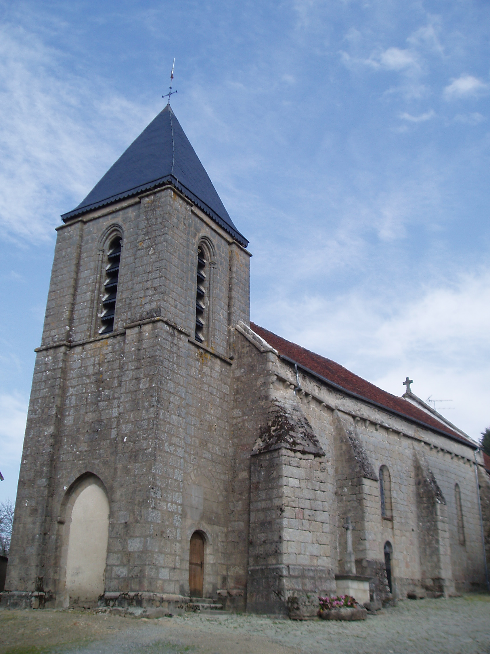 église